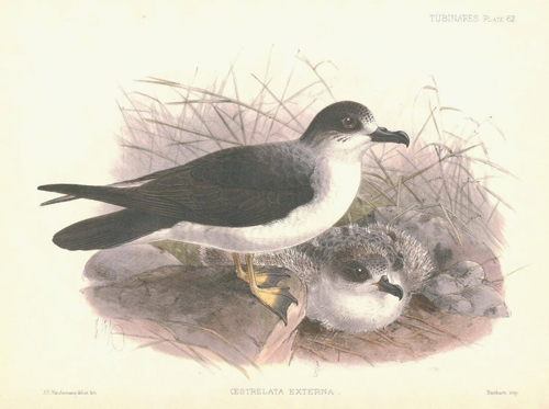 Plate 62 from Godman's 'Monograph of the Petrels'